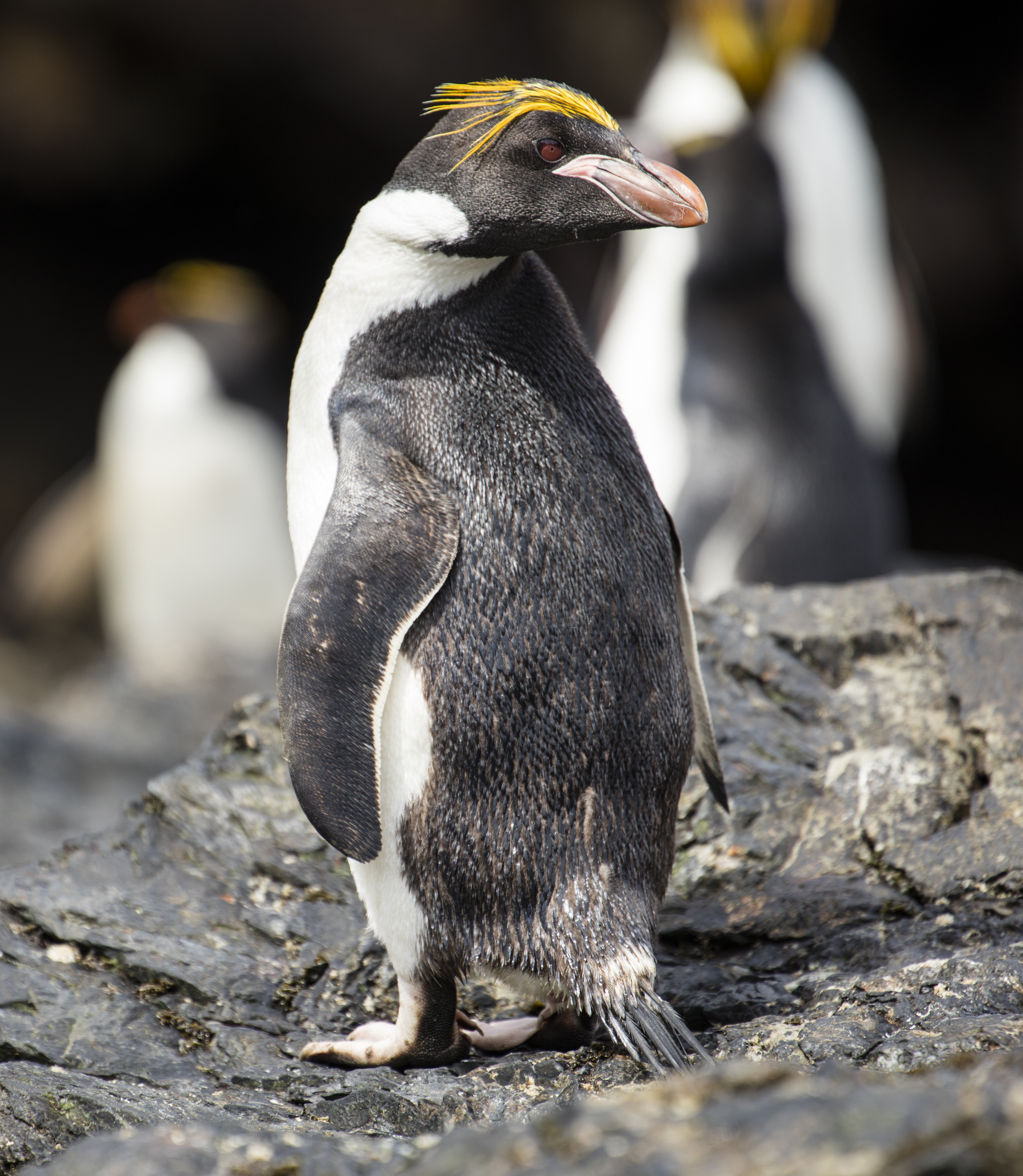 Macaroni penguin (Eudyptes chrysolophus), Cooper Bay, South Georgia